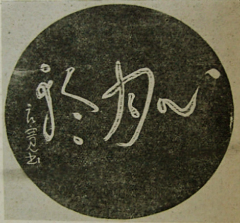 Calligraphy by Ryōkan, engraving on wood. Diameter 42.4cm, Niigata, Japan